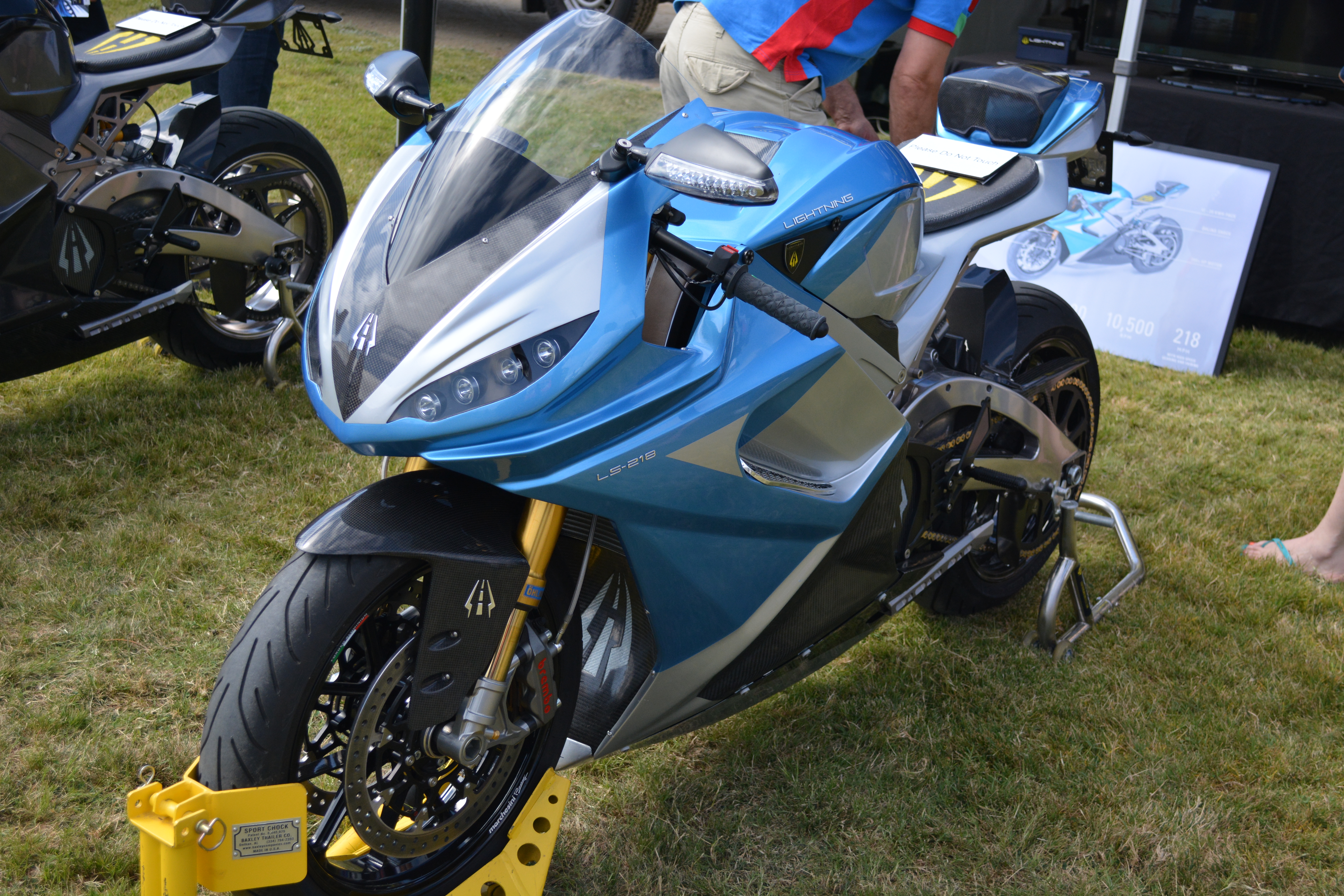 SBK FIM Superbike World Championship 2015 SBK FIM Superbike World Championship 2015